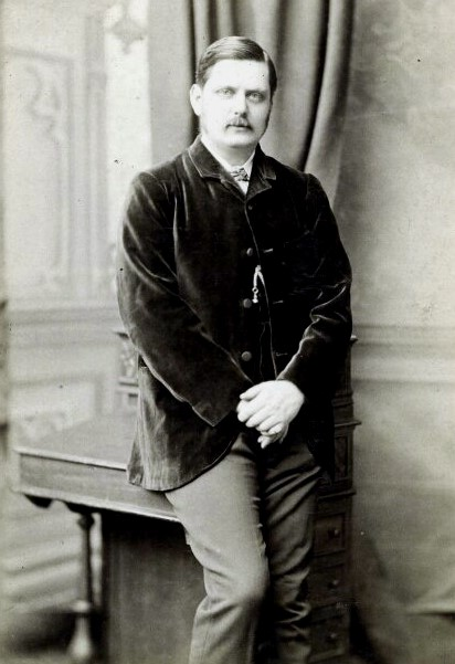 Sir Dawson Williams by Byrne & Co albumen cabinet card, circa 1885